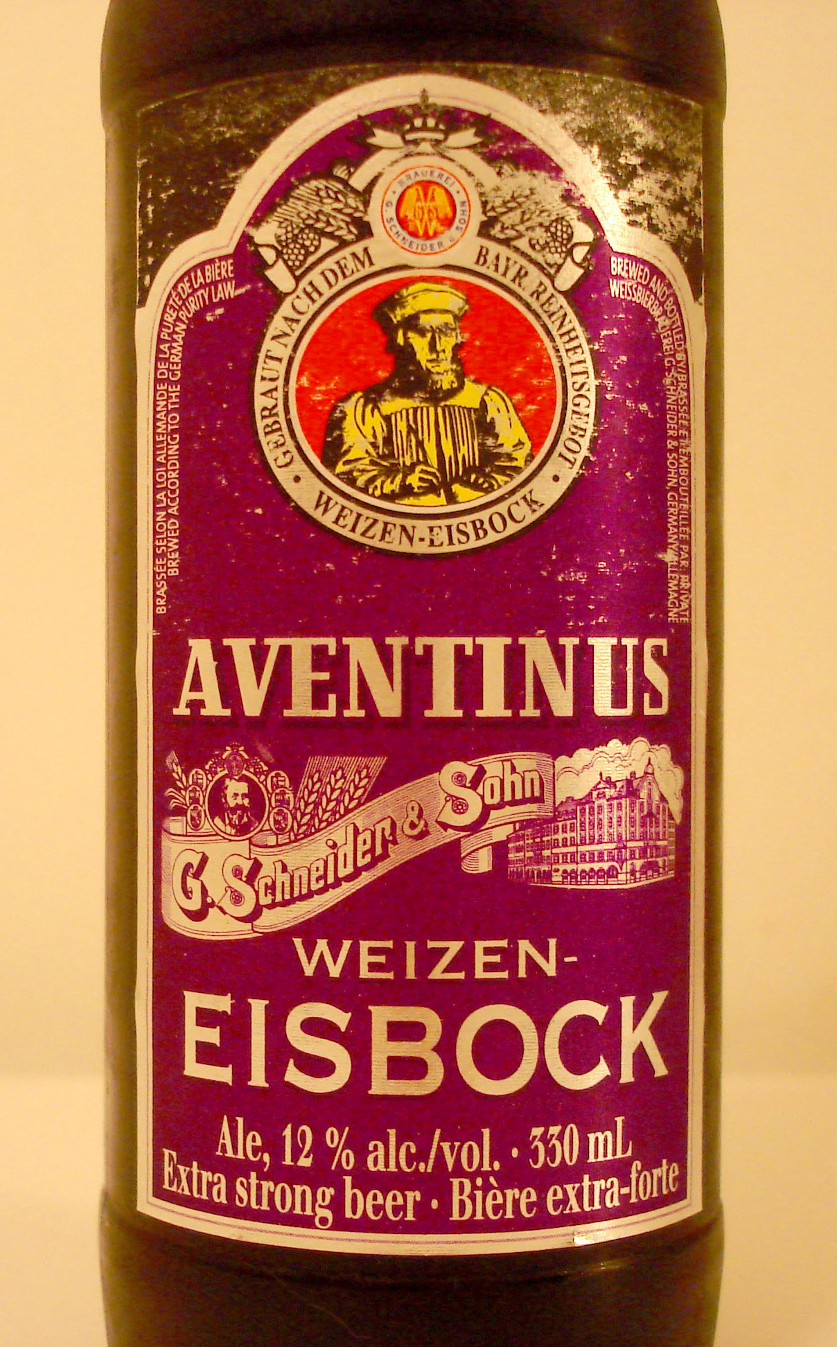 G. schneider & sohn. This is the beer that will put me off wheat beer for good. Crazy people putting 12% into that little bottle.